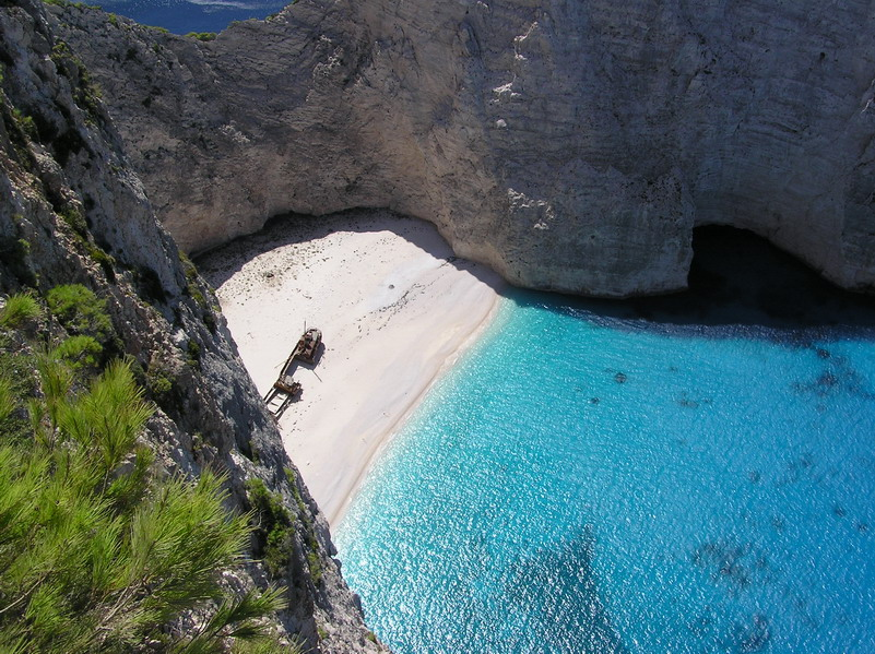 Picture was taken during my holiday on the Greek island Zakynthos in September 2004 and it is the top view of Navagio bay, where some smuggler's ship was washed ashore and could not return to the sea.